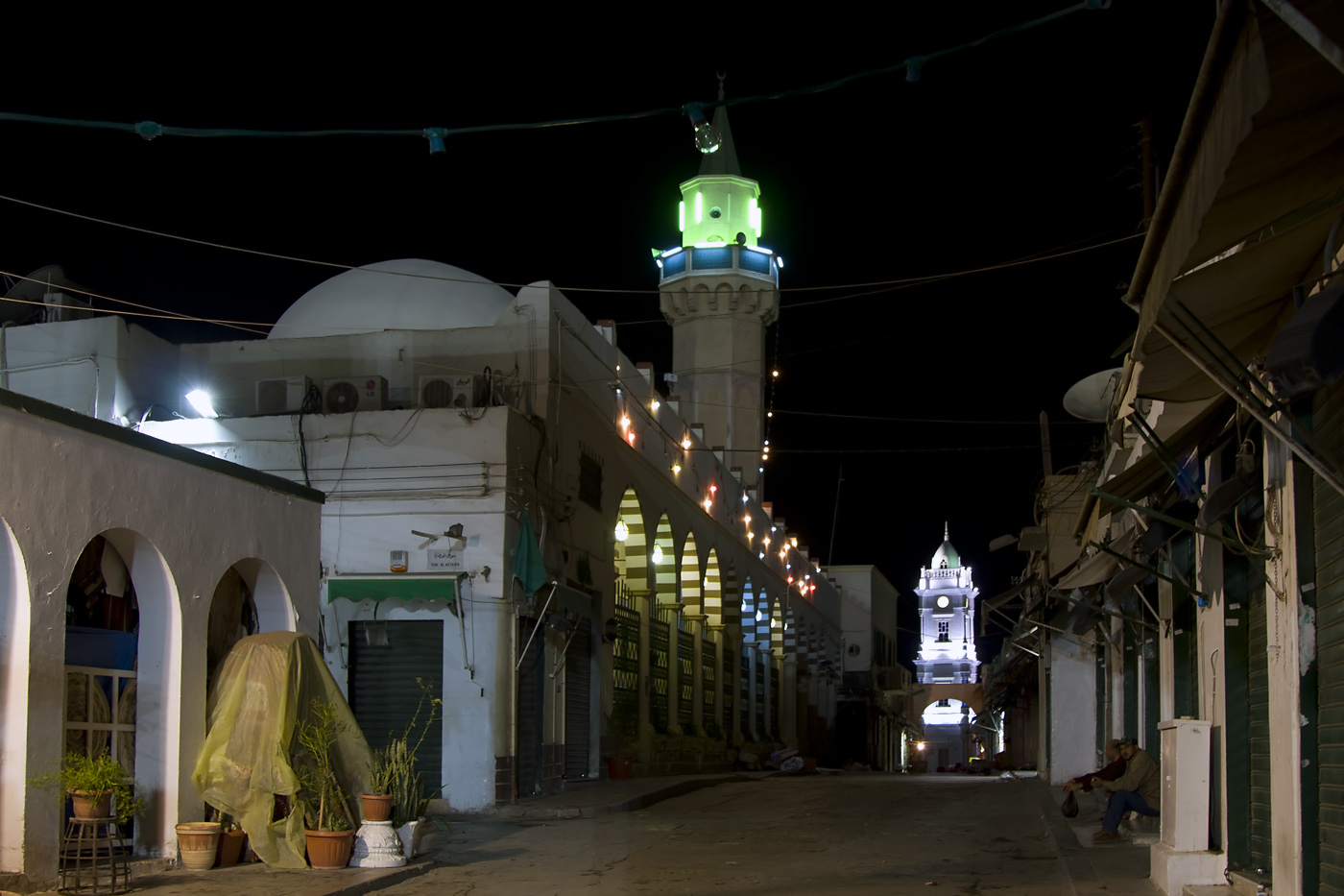 The medina, the old city, with the Ottoman Clock tower at the end of the street.